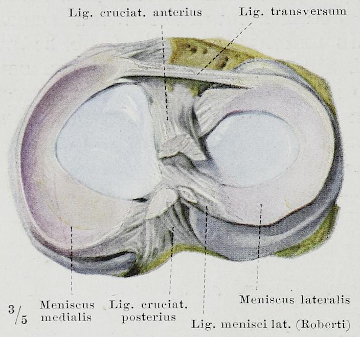 An anatomical illustration from the 1921 German edition of Anatomie des Menschen: ein Lehrbuch für Studierende und Ärzte with latin terminology.